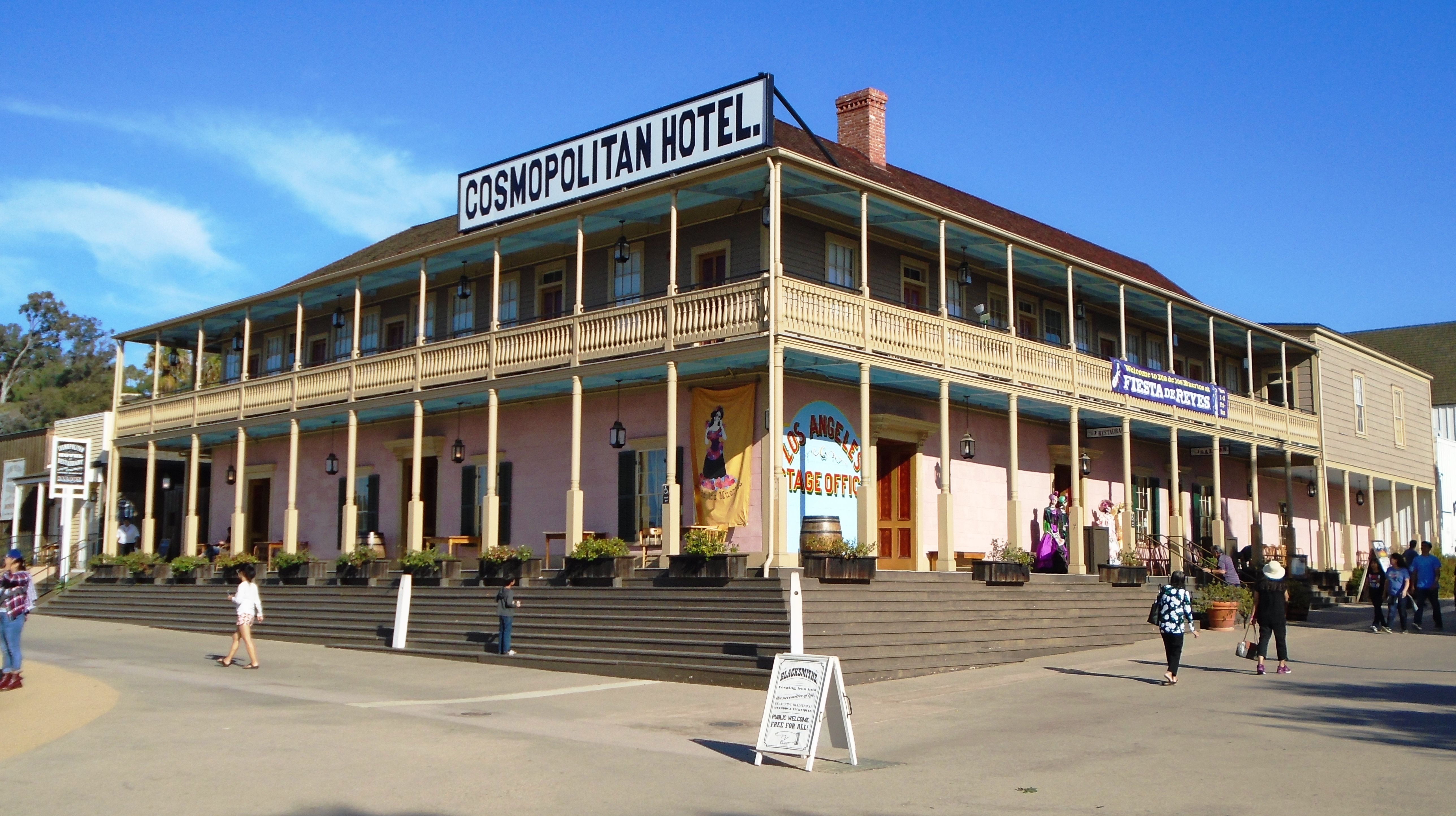 The Cosmopolitan Hotel and Restaurant, or "Casa de Bandini", was initially constructed Between 1827 and 1829 by Juan Bandini as his home. It was sold in 1859 to pay off Bandini's debts. In 1869, the house was purchased by stagecoach operator Albert Seeley to be a stagecoach stop and hotel. Seeley restored and expanded the building, adding a second floor. Seeley sold it in 1888, and it was subsequently used as an olive factory. In 1928, Bandini's grandson bought the property, remodeled it, and rigged it for gas and electricity. The building was renamed "The Miramar". In 1945 it was sold again and remade into an upscale tourist motel. It was then sold to the state of California in 1968, the same year as the founding of the Old Town State Historic Park. The state and a concessionaire reached an agreement to have the building restored to its 1870 condition, and be operated as a hotel and restaurant again. It is now run by Old Town Hospitality Corp., which also operates Fiesta de Reyes and the Barra Barra Saloon.